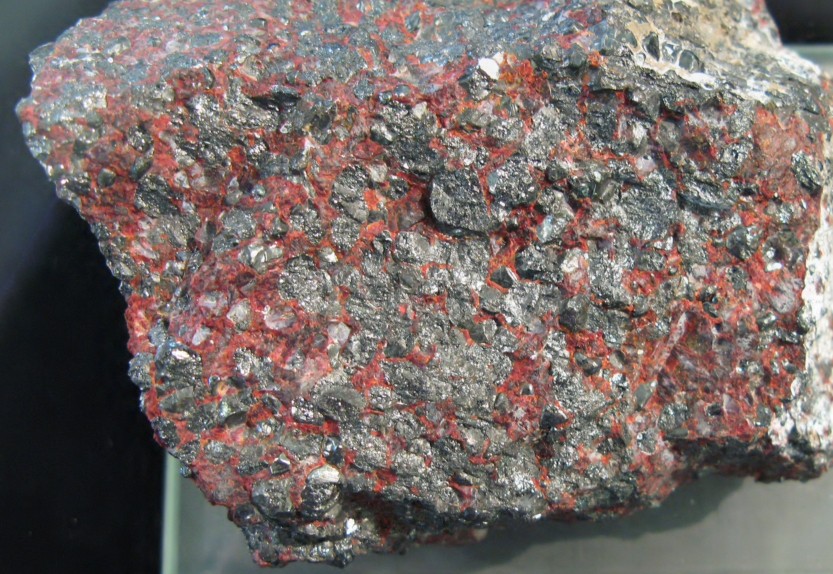 Franklinite (black) with Zincite (red) - Locality: Franklin, New Jersey, USA - Exposed in the Mineralogical Museum, Bonn, Germany